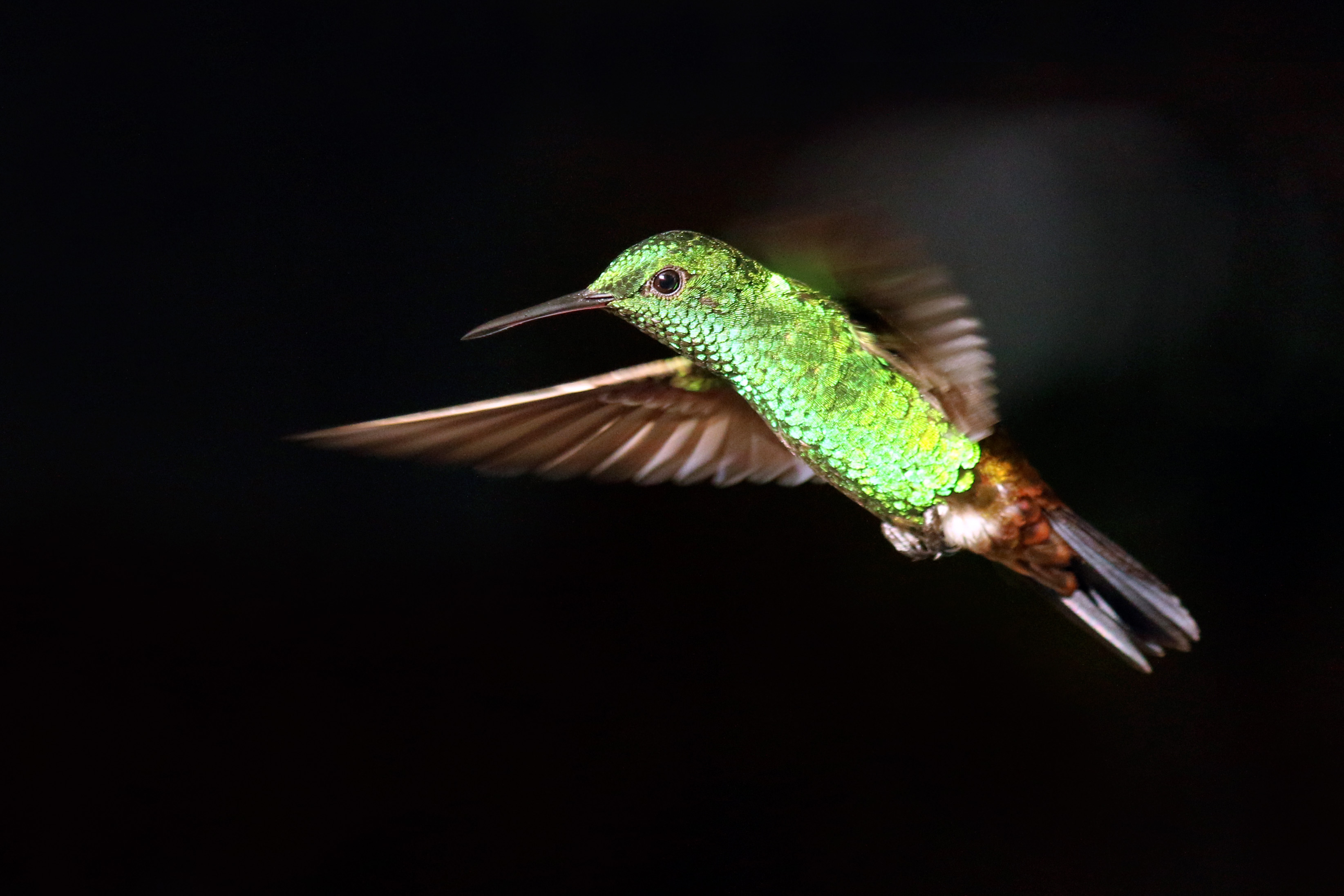 Copper-rumped hummingbird (Amazilia tobaci tobaci) in flight, Tobago